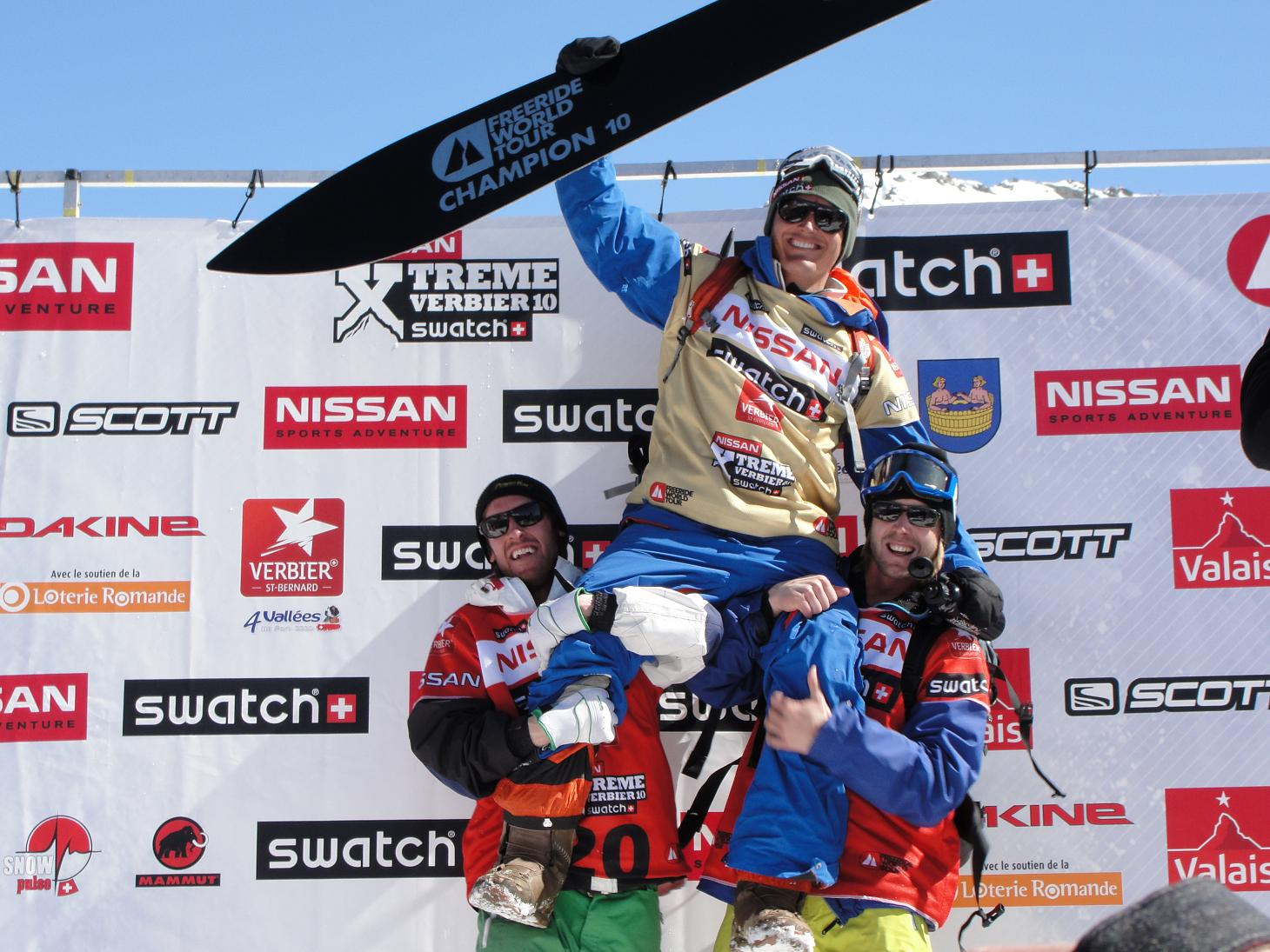 Winner of Freeride World Tour 2010 (snowboard): 1.XAVIER DE LE RUE (FRA) 2.MITCH TOELDERER(AUT) 3.MATT ANNETTS (USA)